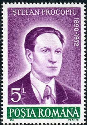 Postage stamp of Ştefan Procopiu issued in 1990 by the Romanian postal administration